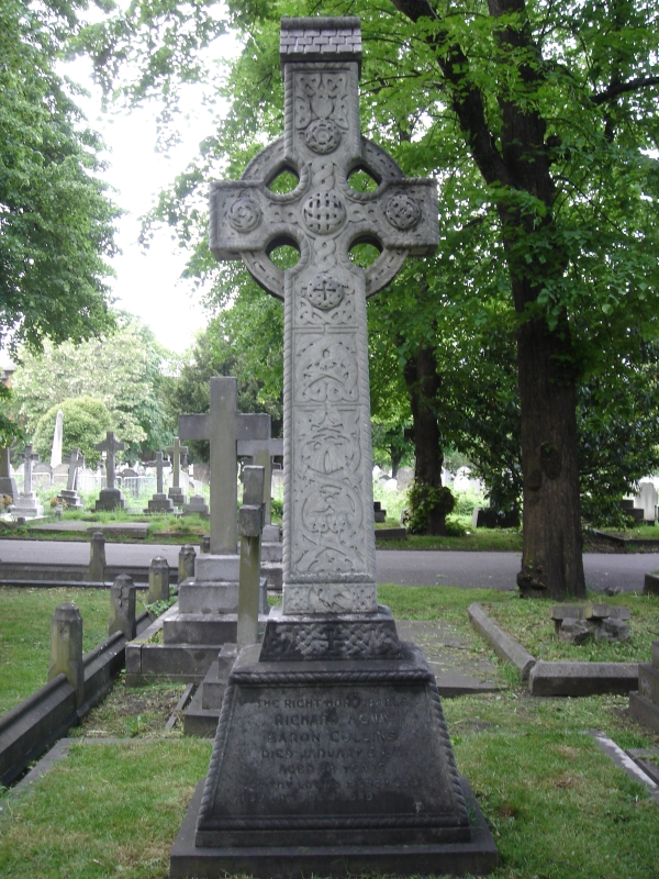 Funerary monument of Richard Collins, Baron Collins, Judge, at Brompton Cemetery, London.